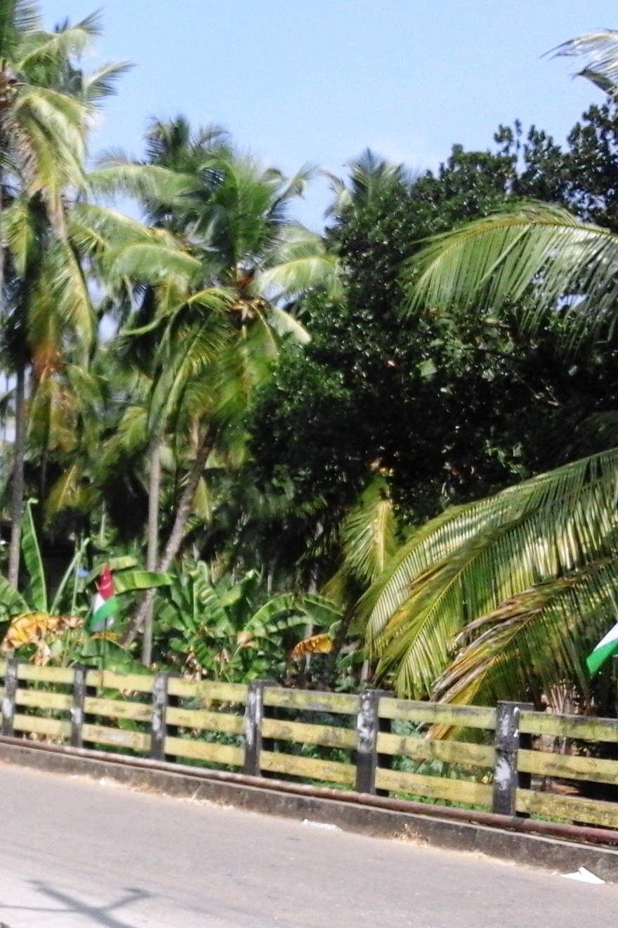 Vazhikkadavu, Nilambur, Malappuram Dt, Kerala, India.